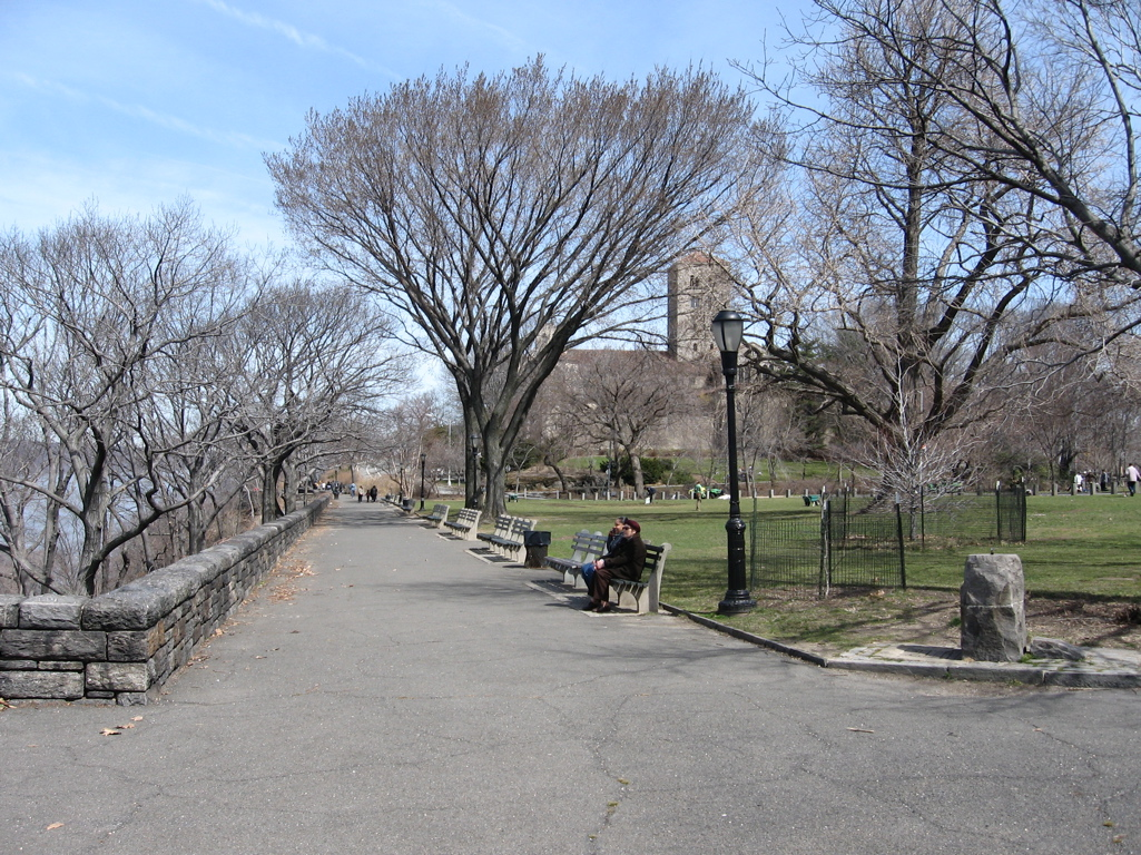 I took the picture looking north at The Cloisters.